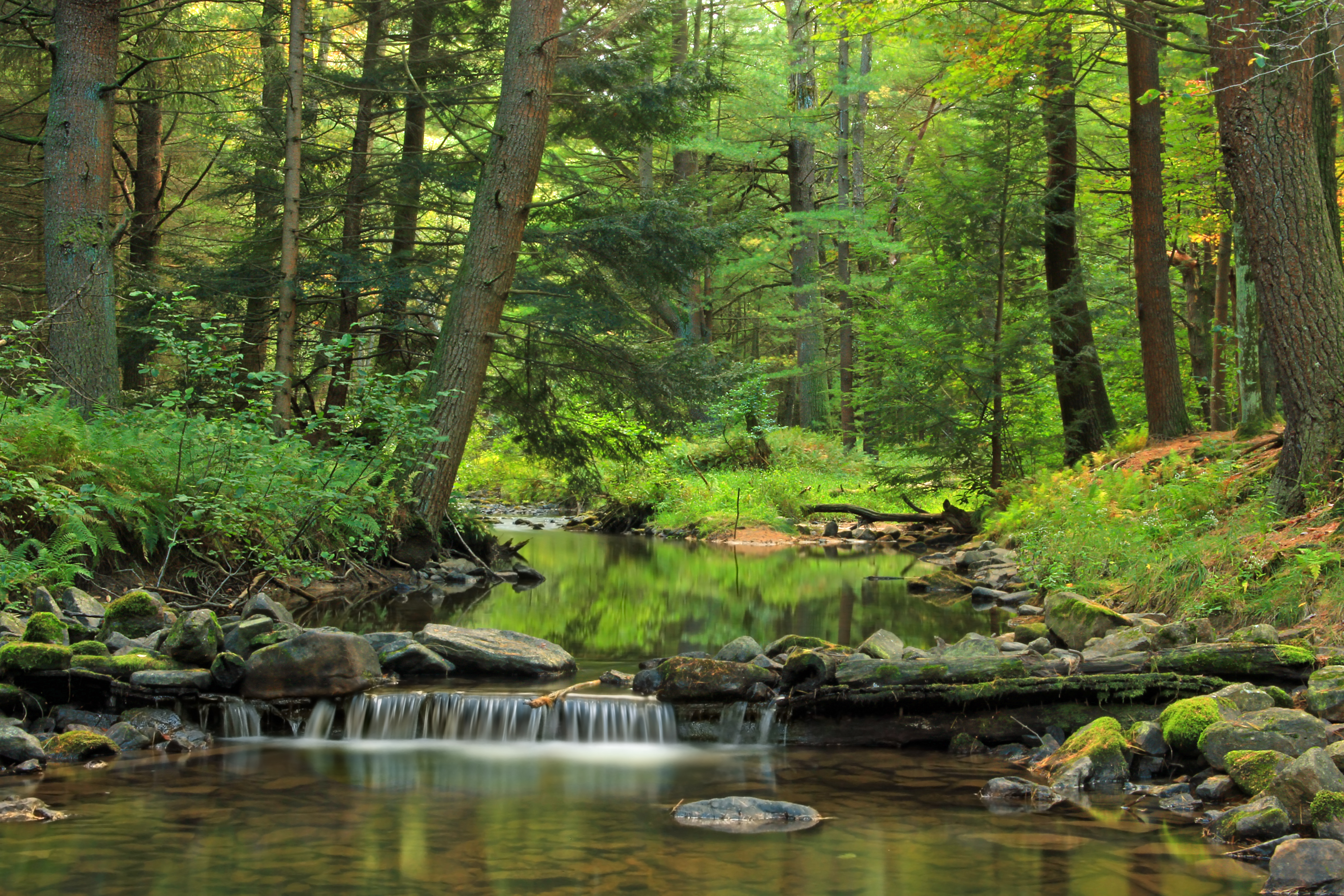 McCalls Dam State Park, Centre County. White Deer Creek, a tributary of the West Branch Susquehanna River, flows for many miles in a broad, heavily forested mountain valley. Dense stands of hemlocks, white pines, and hardwoods shade the stream along most of its length.